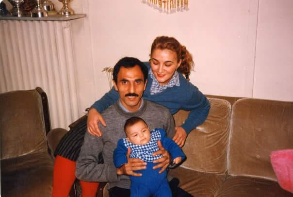 Aile fotoğrafı